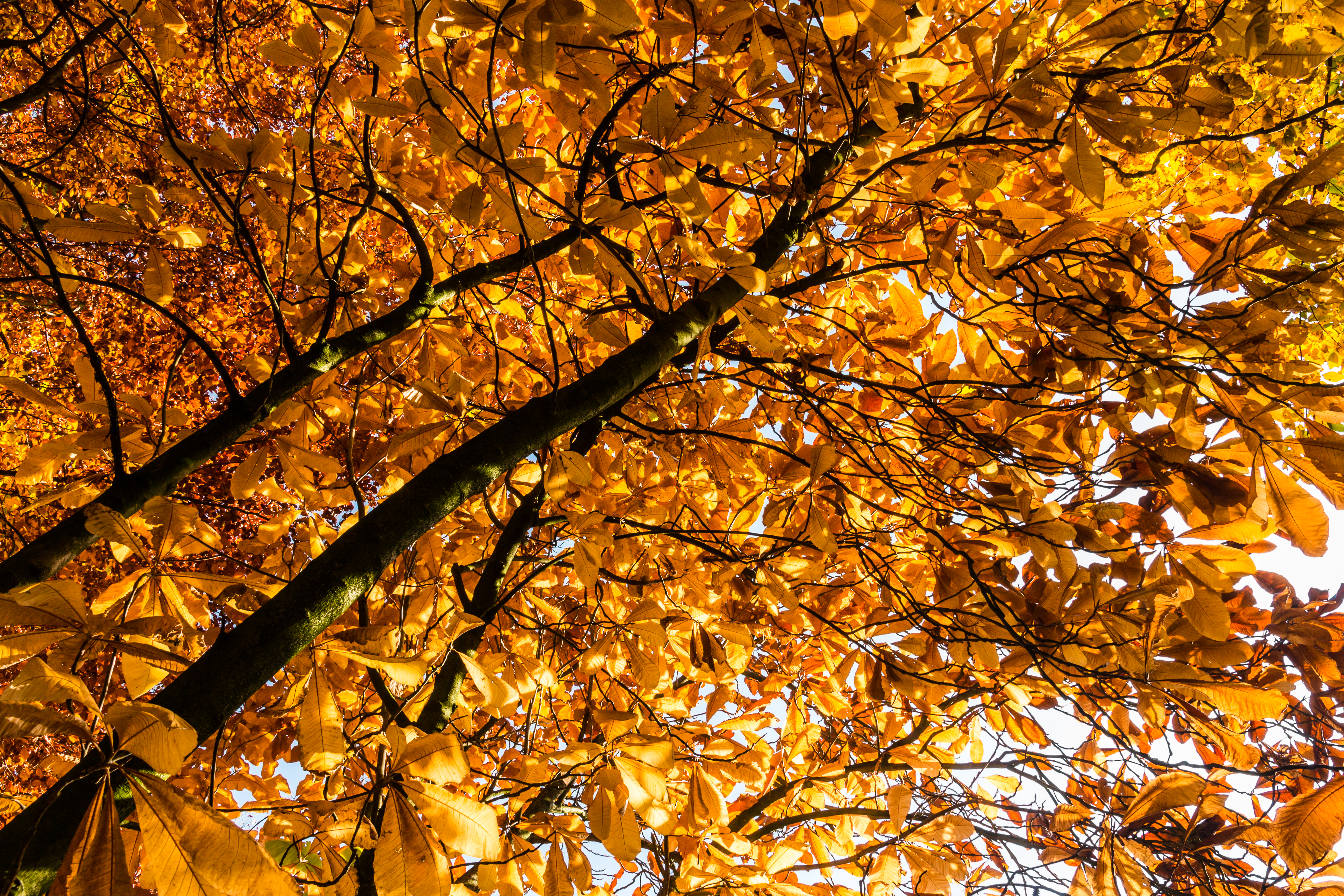 Branch of a chestnut in Sentmaring park in autumn, Münster, North Rhine-Westphalia, Germany